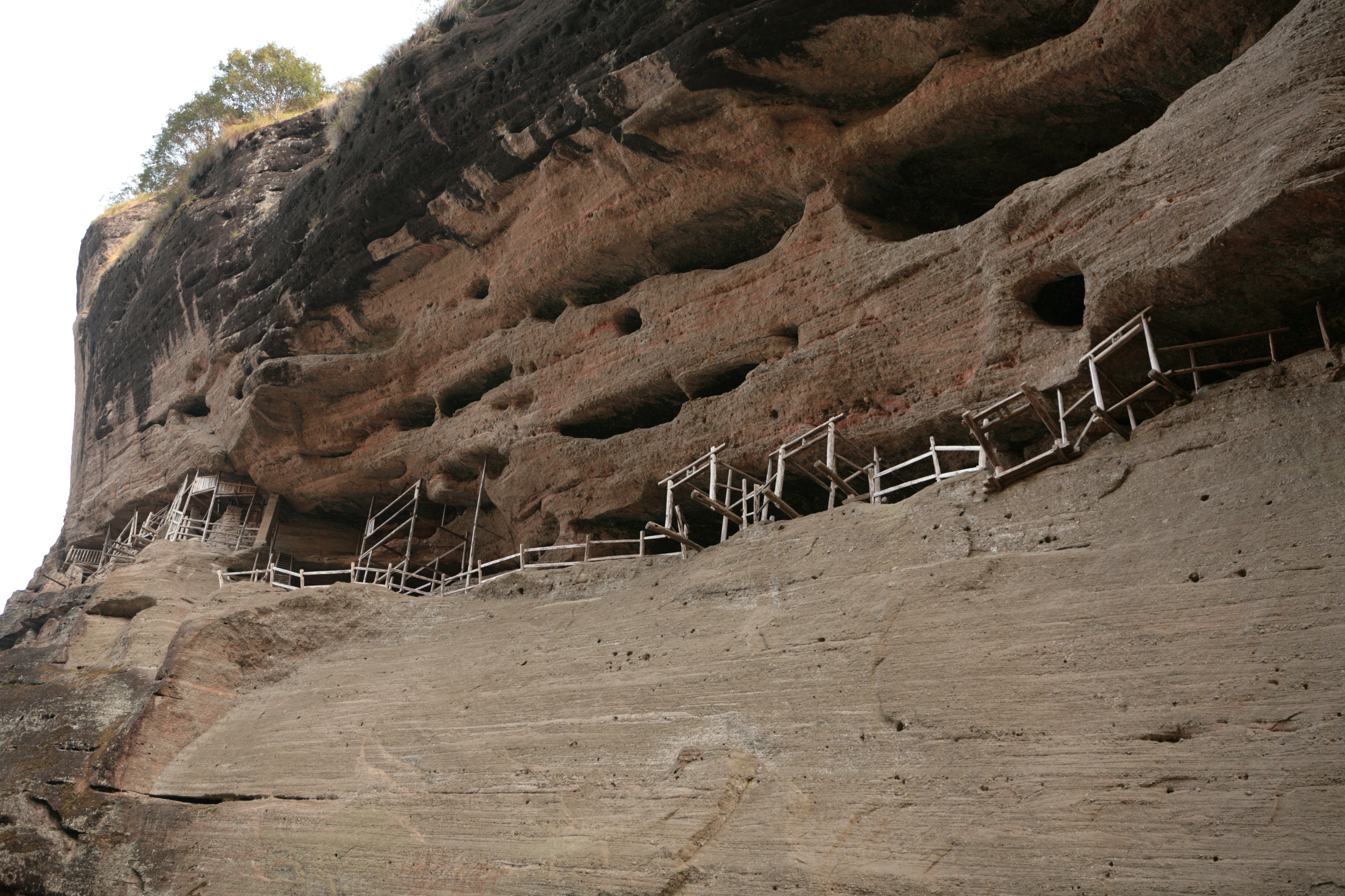 Tombs in Wuyishan